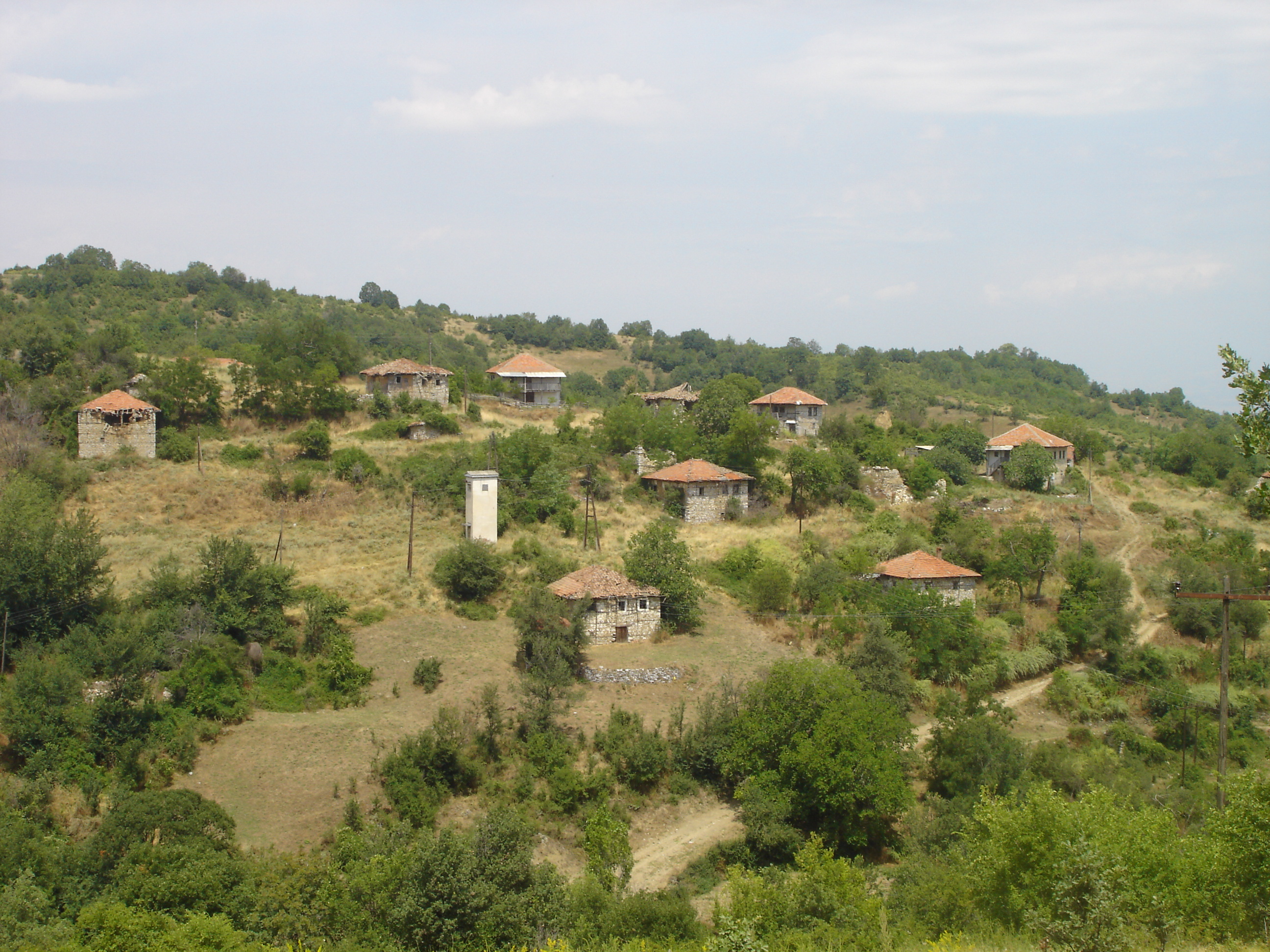 village of Gradovci, Macedonia